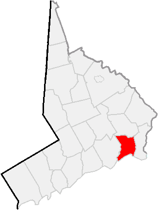 Some data used in this map is from the United States Census Bureau at